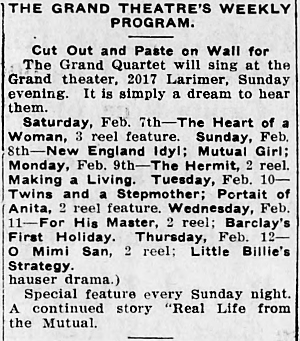 O Mimi San is a 1914 American short silent drama film directed by Charles Miller, featuring Tsuru Aoki in the title role and Sessue Hayakawa. Newspaper listing including the film.